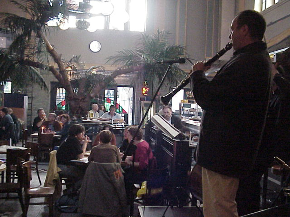 Jazz in a train station